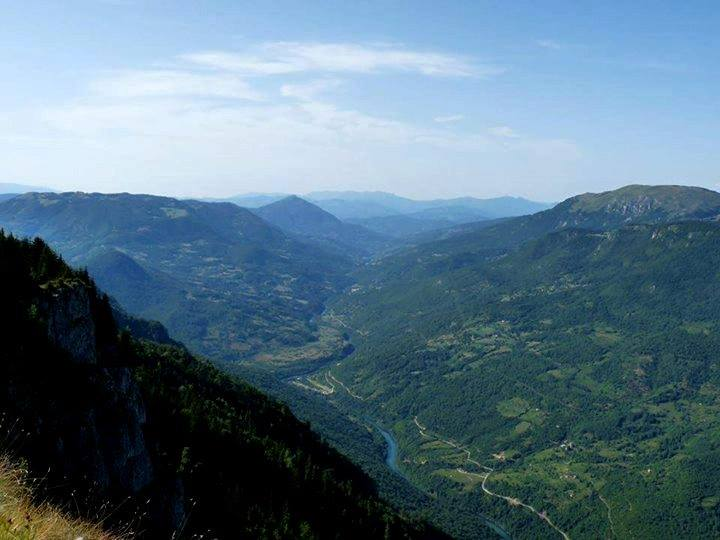 Pogled sa planine Vučevo na selo Mazoče - opština Foča